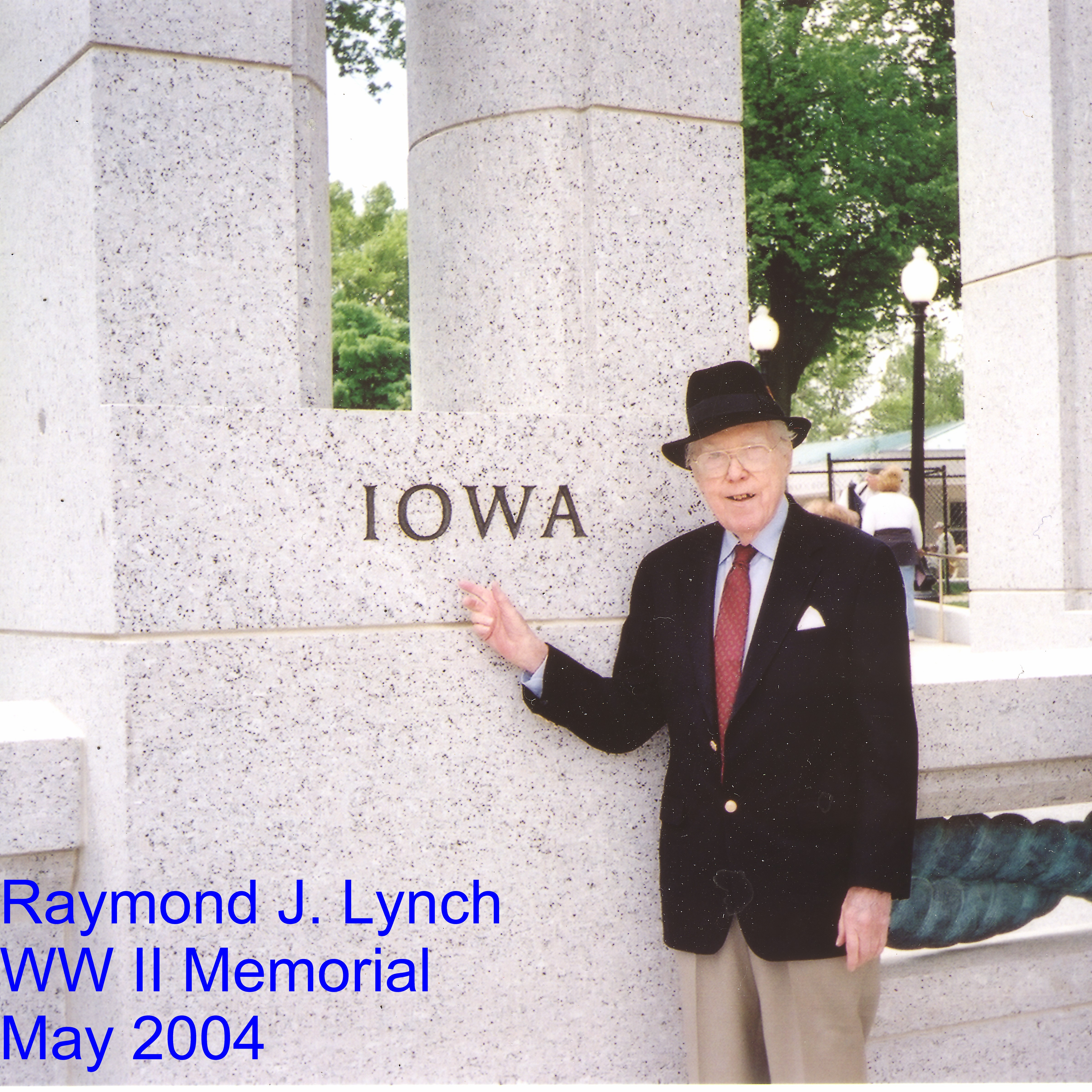 Original caption: “Raymond J. Lynch. WW II Memorial. May 2004.” — from watermark